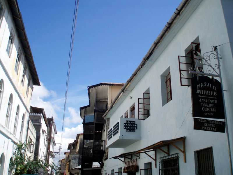 Entering the old town, Mombasa